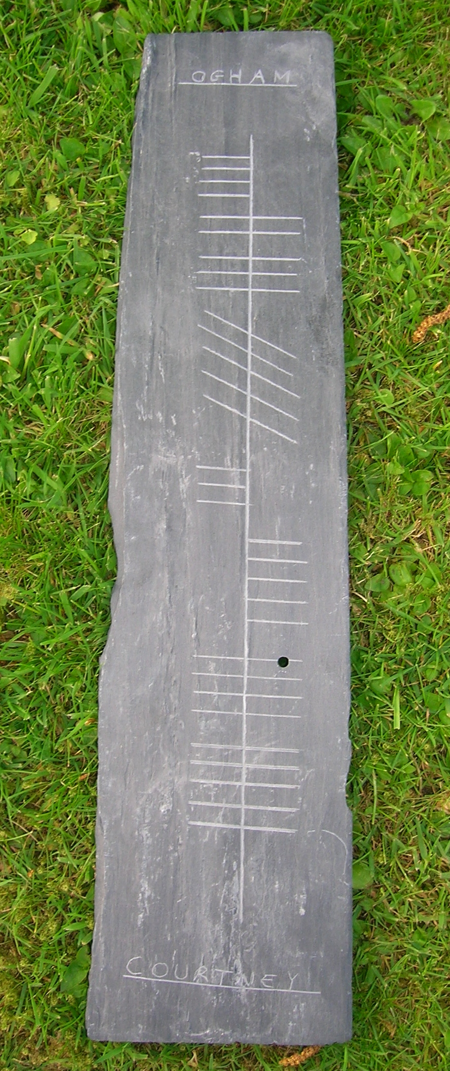 Ogham inscription COURTNEY (Y = I) on slate. Created 2011-04-26.